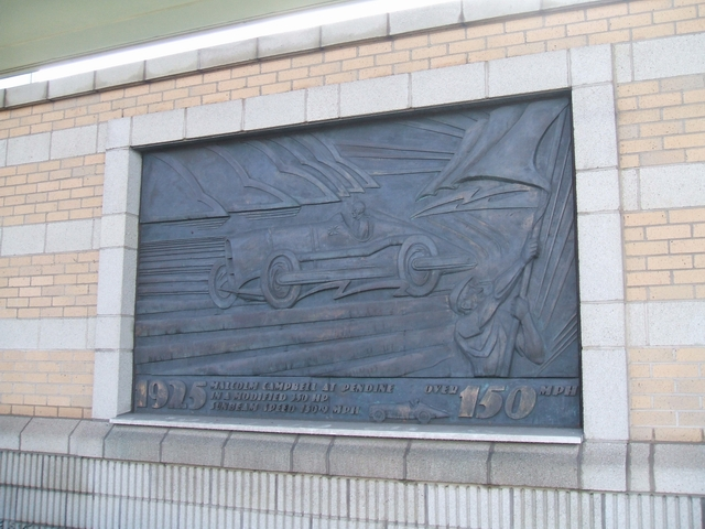 Malcolm Campbell's speed record The 1925 speed record of 150mph is commemorated on the wall of the St John's retail park. Sunbeams were built nearby (336713).